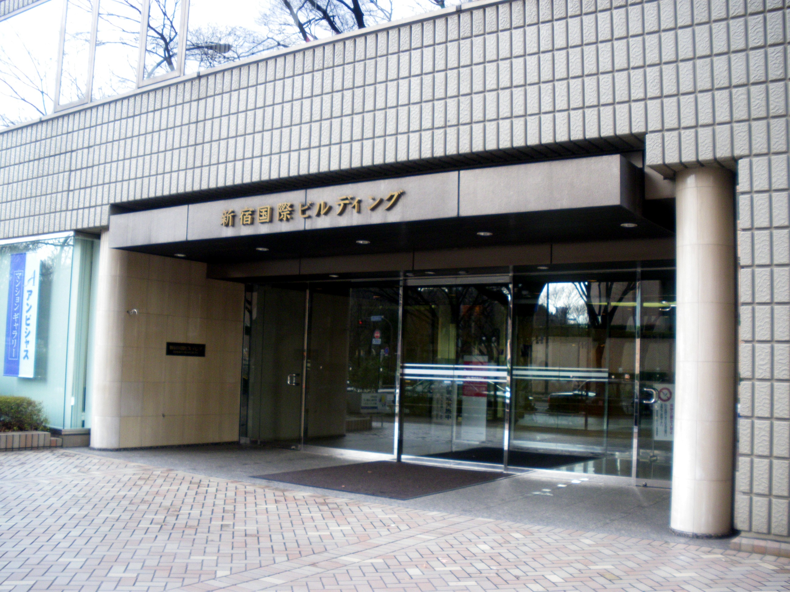 photo of the entrace of Shinjuku kokusai building(entrance of office section).